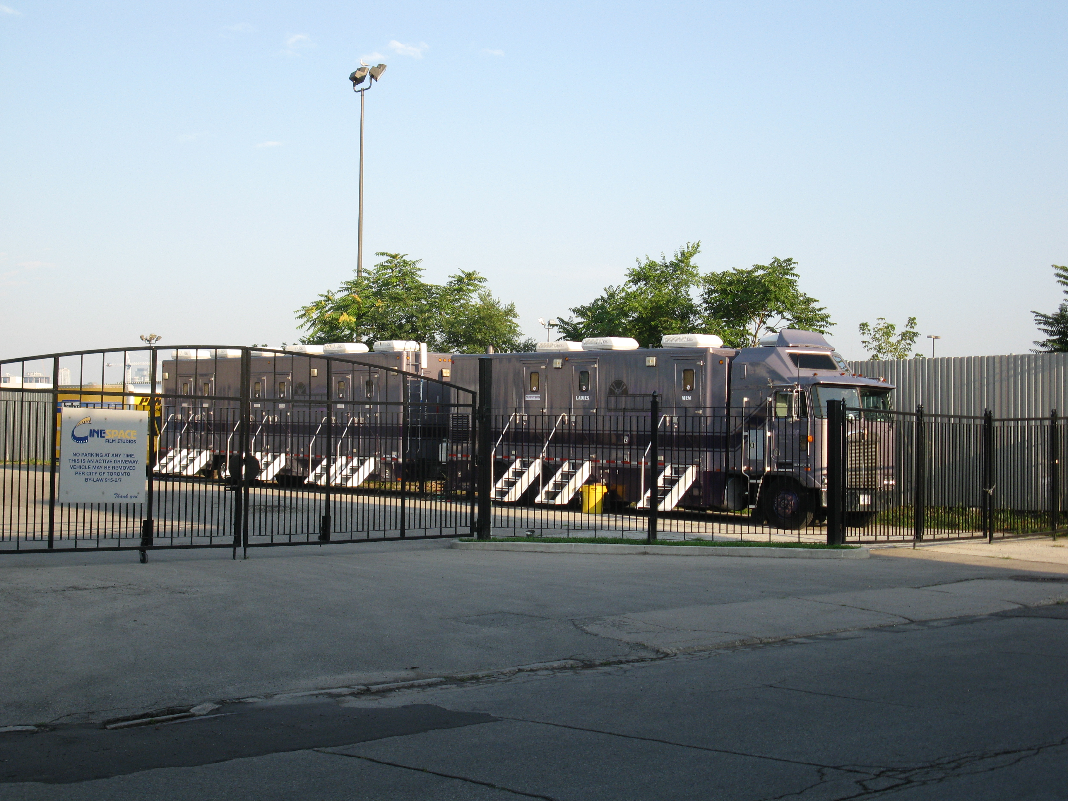 Film support truck, prepared to portable dressing rooms. The first trailer behind the truck cab has three doors, labelled, "Men", "Women" and "transport office". The second trailer contains dressing rooms. The more important the actor the bigger the dressing room. A leading actor on a big film can expect a whole RV or trailer for their exclusive use. In the film "Only the Lonely" Maureen O'Hara, a star with a long and distinguished career, portrayed John Candy's mother. When he discovered she was consigned to one of these little dressing rooms he tried to pressure the film's producers to provide her with an RV or trailer like his. When they said the budget wouldn't support another trailer he insisted that he would trade her smaller dressing room for his sole use trailer, out of his respect for her distinguished career.